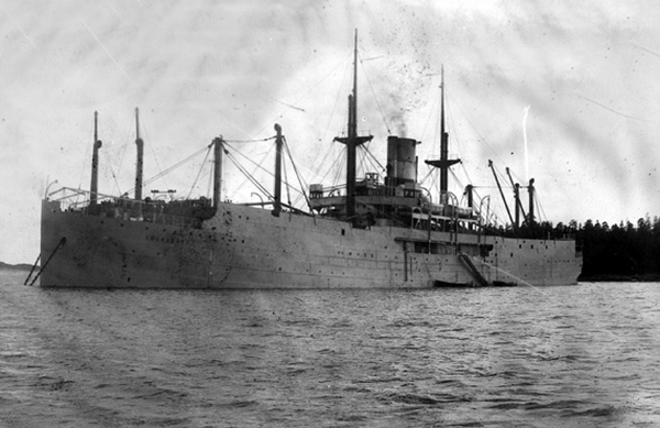 Chr. Salvesen's whaling factory "Sourabaya", ex. S/S Carmarthenshire (1915)